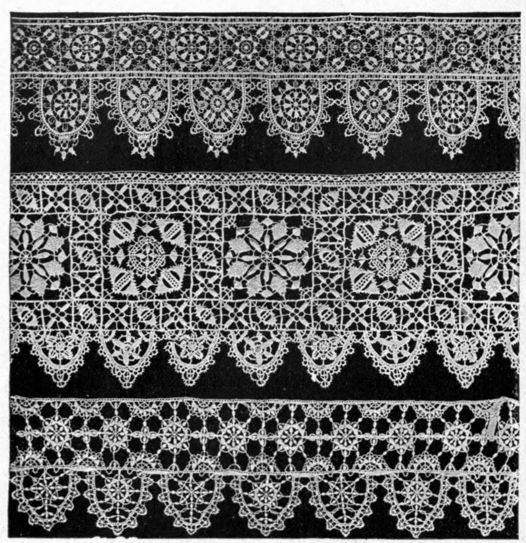 Fig. 3.--THREE VANDYKE OR DENTATED BORDERS OF ITALIAN LACE OF THE LATE 16th CENTURY. Style usually called "Reticella" on account of the patterns being based on repeated squares or reticulations. The two first borders are of needlepoint work; the lower border is of such pillow lace as was known in Italy as "merletti a piombini." Illustration from 1911 Encyclopædia Britannica, article Lace.